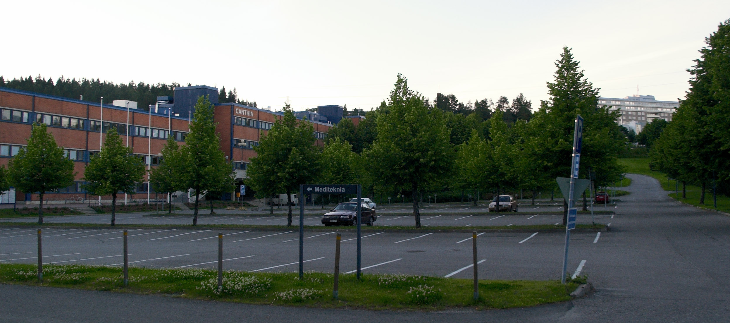 Left: University of Kuopio, Canthia -building. Right: Kuopio University Hospital.